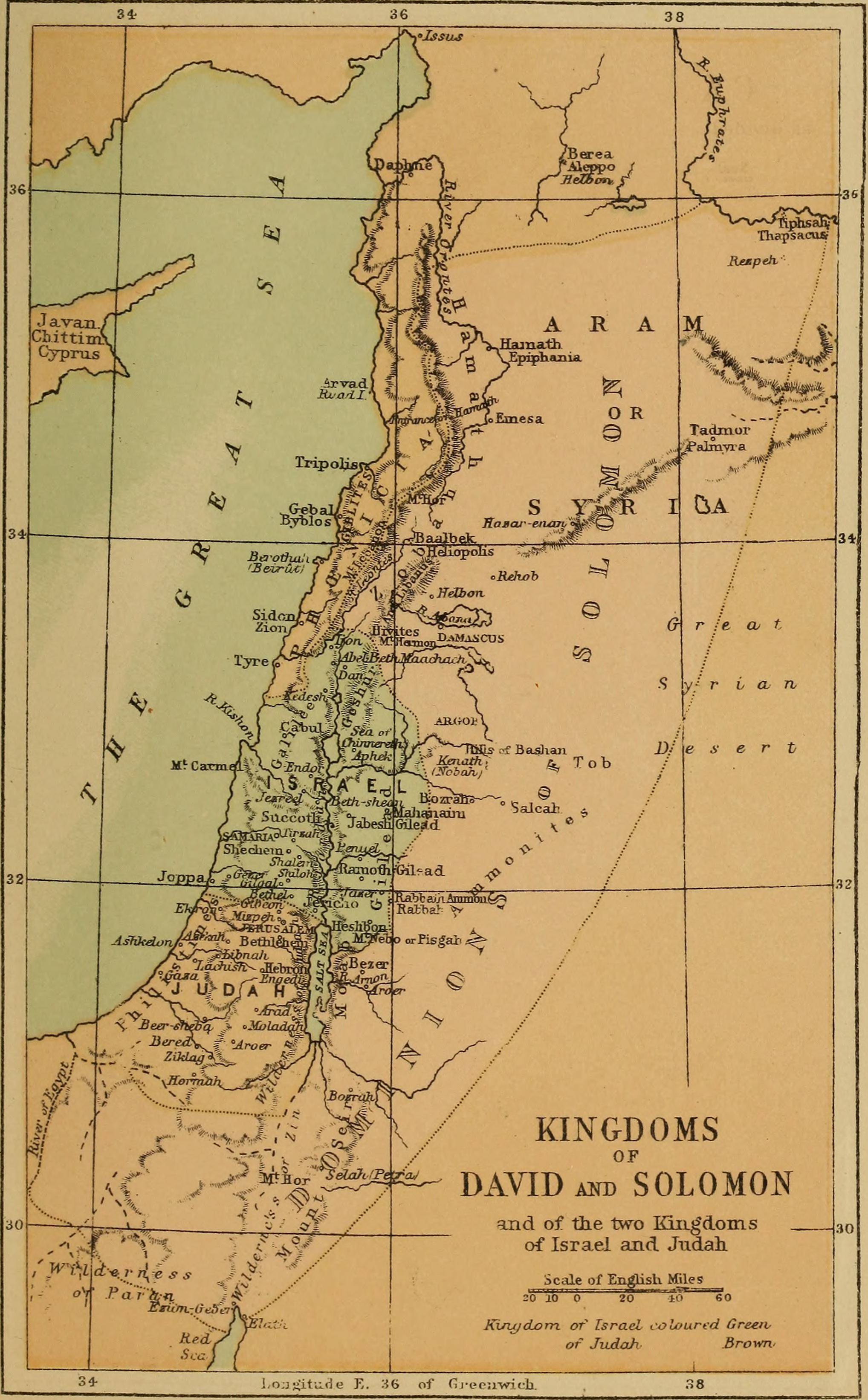 Title: A dictionary of the Bible.. Year: 1887 (1880s) Authors: Schaff, Philip, 1819-1893 Subjects: Publisher: (n. p.) Text Appearing Before Image: Ooay-yte I860.) The. American Sunday School I rum £7aZade?p7Mb. 5 Text Appearing After Image: Copjrtaht 1829. Th& American Sundew Schx/ol Union. PhzLadeip7vLa. ■ 6